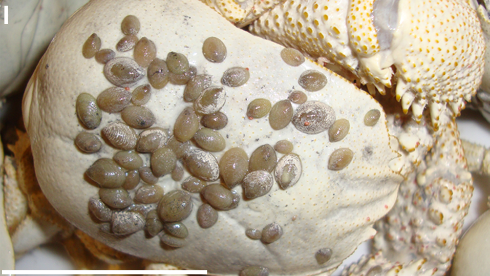 Photo of Lepetodrilus sp. from East Scotia Ridge on carapace of large individual of Kiwa sp. 62 individuals counted. Scale bar is 5 cm.